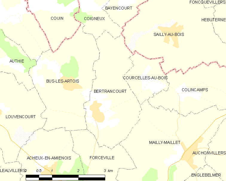 Map of French municipality Bertrancourt